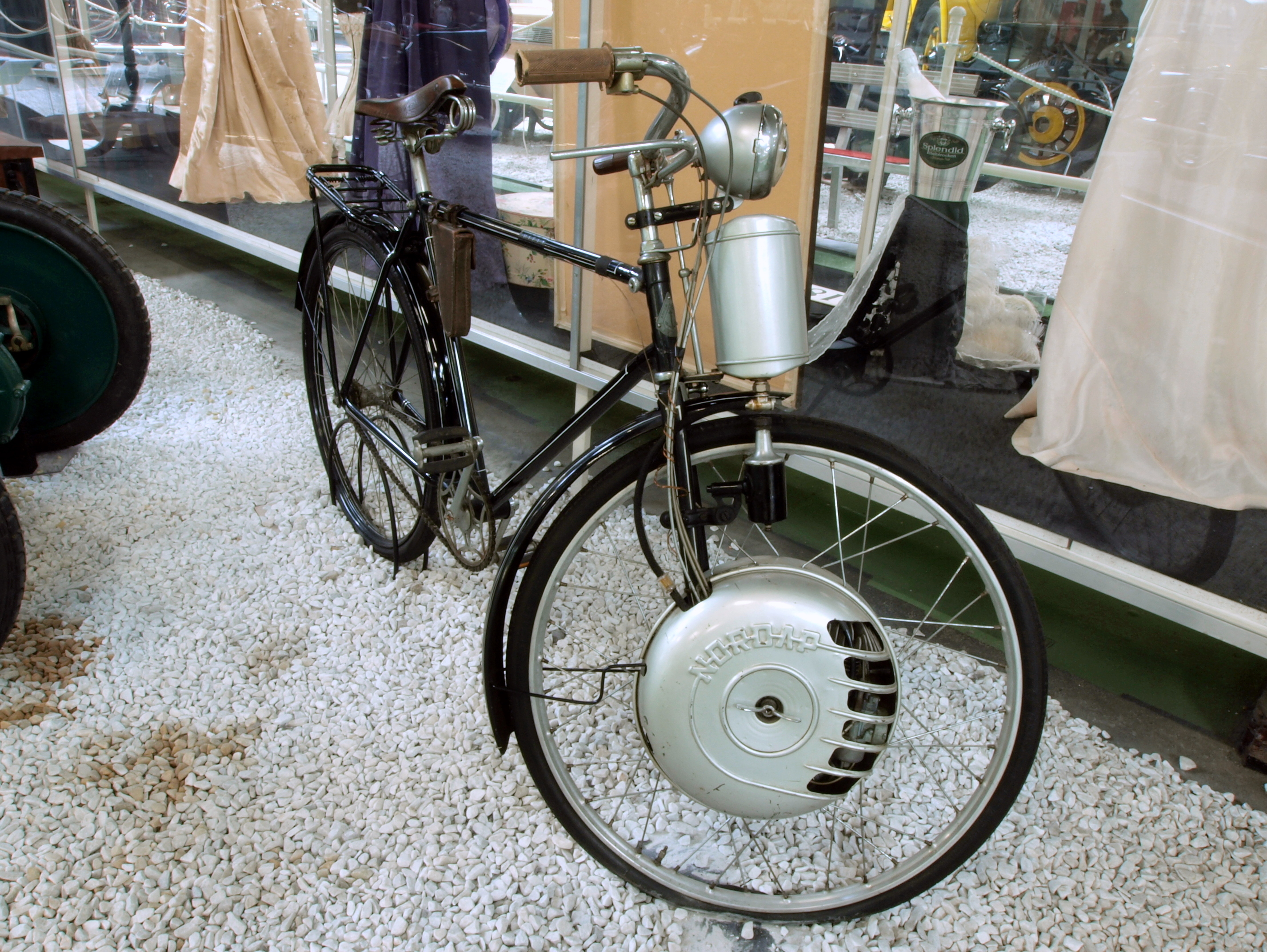 Photographed at the Auto & Technic museum Sinsheim.